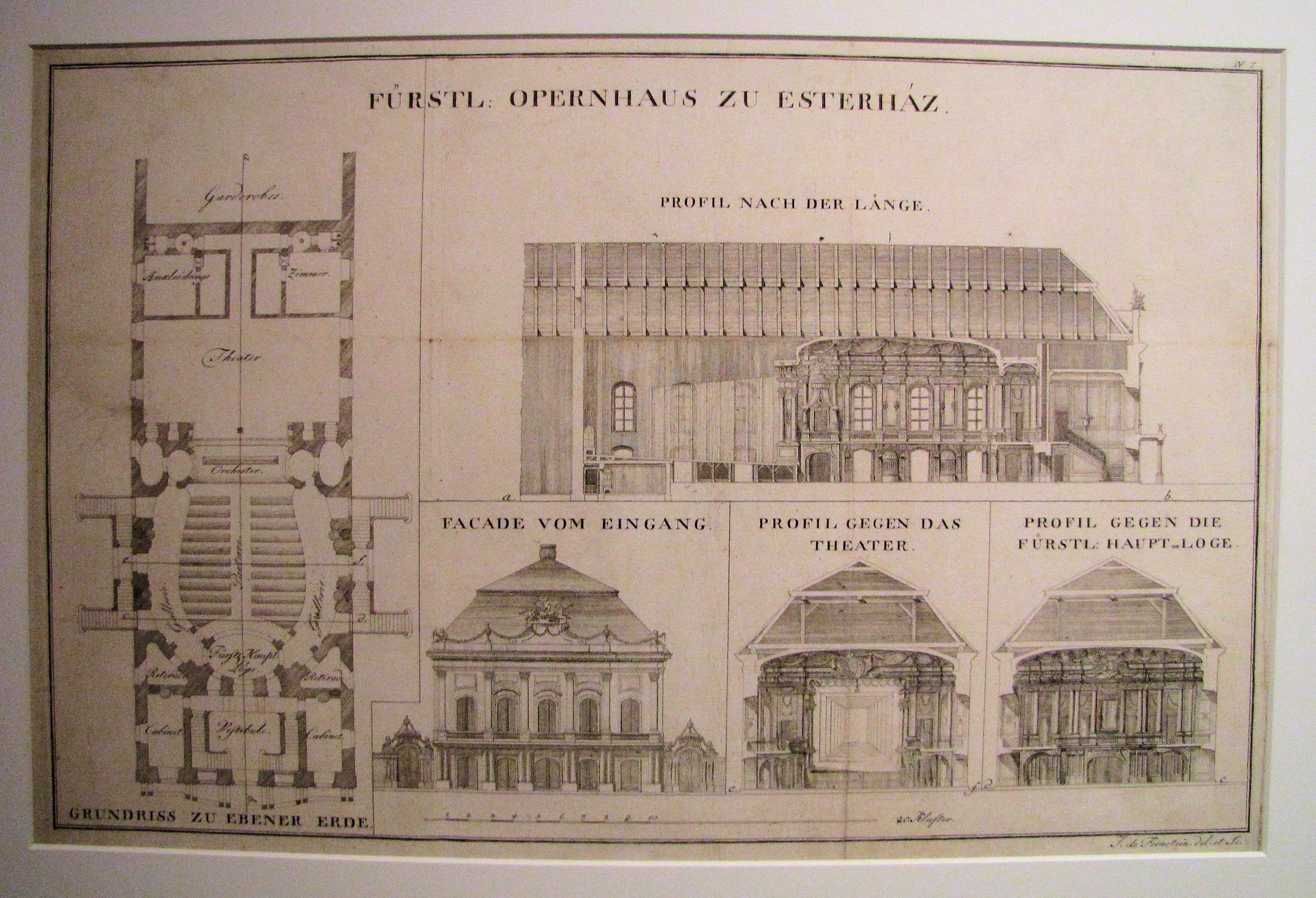 Plans of the Opera House for the Esterházy Castle in Fertőd, Hungary. The original plans are kept in the Esterházy Castle of Eisenstadt, Austria. 1784.